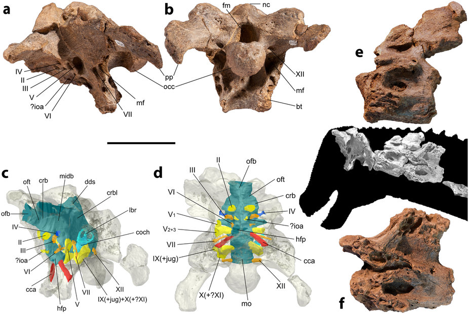 Figure 5: Diamantinasaurus matildae, referred specimen AODF 836. (a,b) Braincase (left lateral and caudal views). (c,d) endocranium (left lateral oblique and ventral views). (e) Axis (left lateral view). (f) Cervical vertebra III (left lateral view). Abbreviations: bt, basal tuber; cca, internal carotid artery; coch, cochlea; crb, cerebral hemisphere; crbl, cerebellum; dds, dorsal dural sinus; fm, foramen magnum; hfp, hypophyseal fossa placement; ioa, internal ophthalmic artery; jug, jugular vein; lbr, endosseous labyrinth; mf, metotic foramen; midb, midbrain; mo, medulla oblongata; nc, nuchal crest; occ, occipital condyle; ofb, olfactory bulb; oft, olfactory tract; pp, paroccipital process; II, optic tract; III, oculomotor nerve; IV, trochlear nerve; V, trigeminal nerve; V1, ophthalmic branch of the trigeminal nerve; V2+3, maxillo-mandibular branch of the trigeminal nerve; VI, abducens nerve; VII, facial nerve; IX, glossopharyngeal nerve; X, vagus nerve; XI, accessory nerve; XII, hypoglossal nerve? structure of unknown or disputable identity/placement. Scale bar = 100 mm.